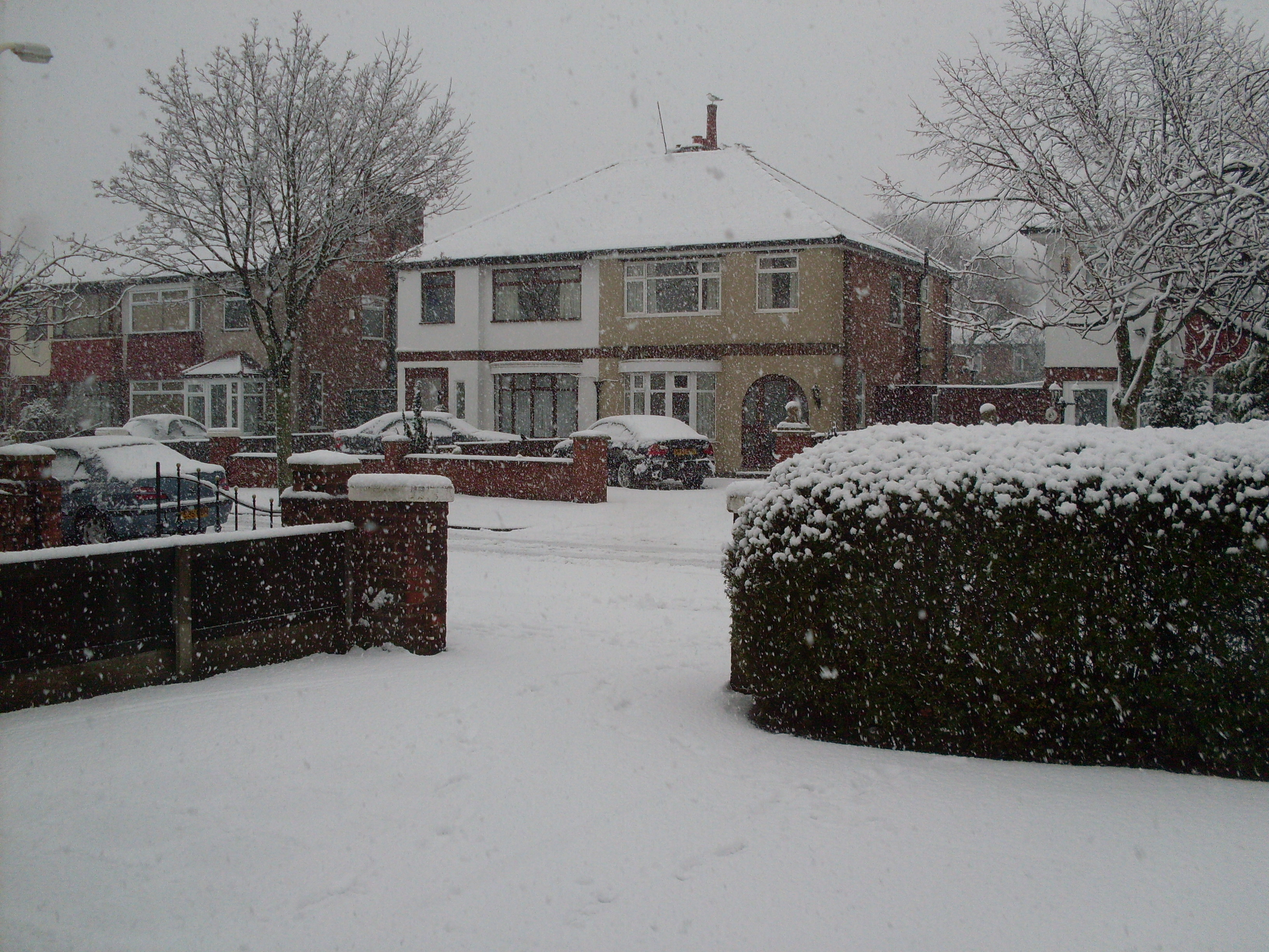 Heavy snowfall at Southport, Merseyside, UK on 5th January 2010. Approximately 10cm fell.